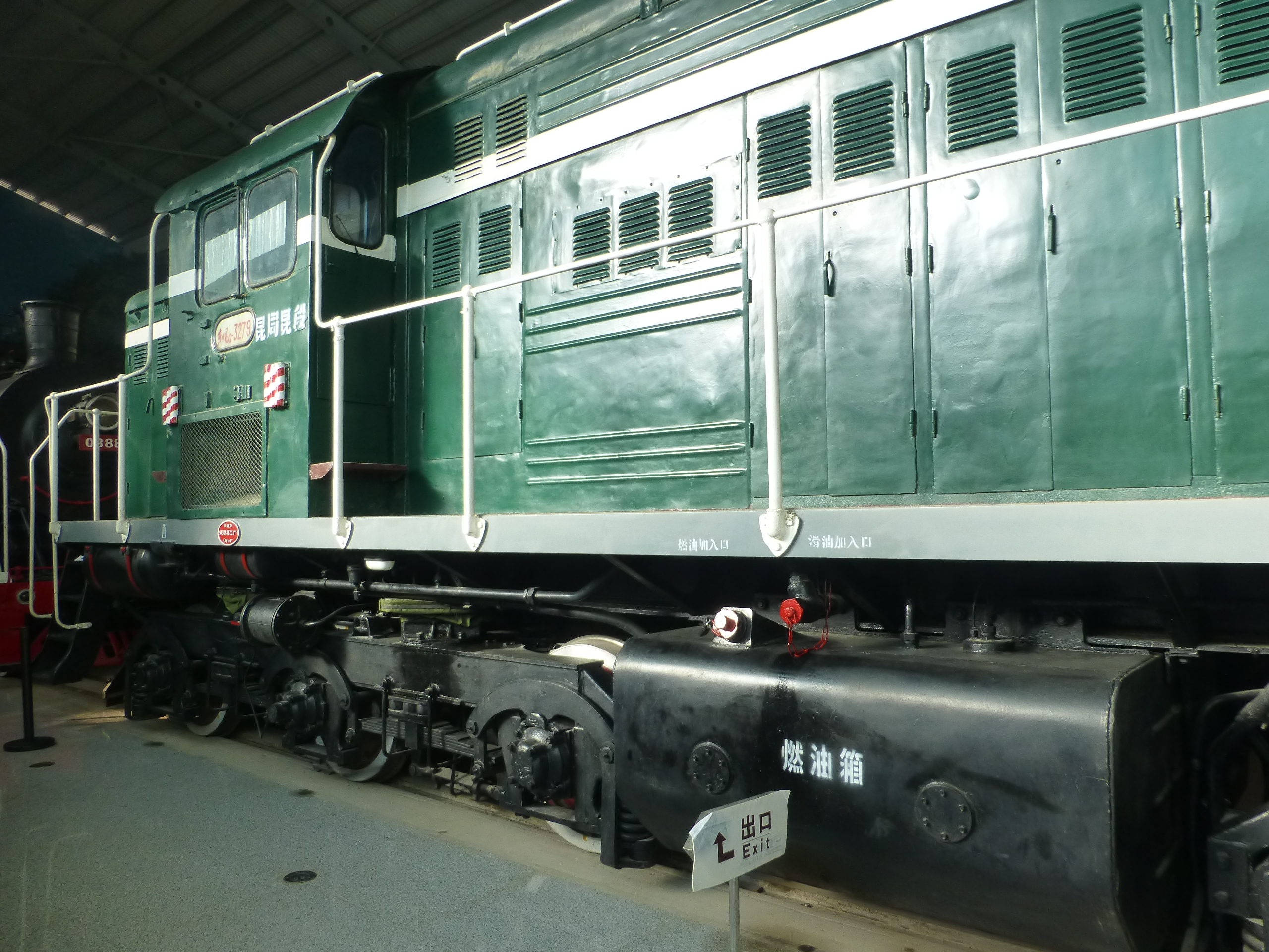 Rolling stock on display in the Yunnan Railway Museum (Kunming North Railway Station)